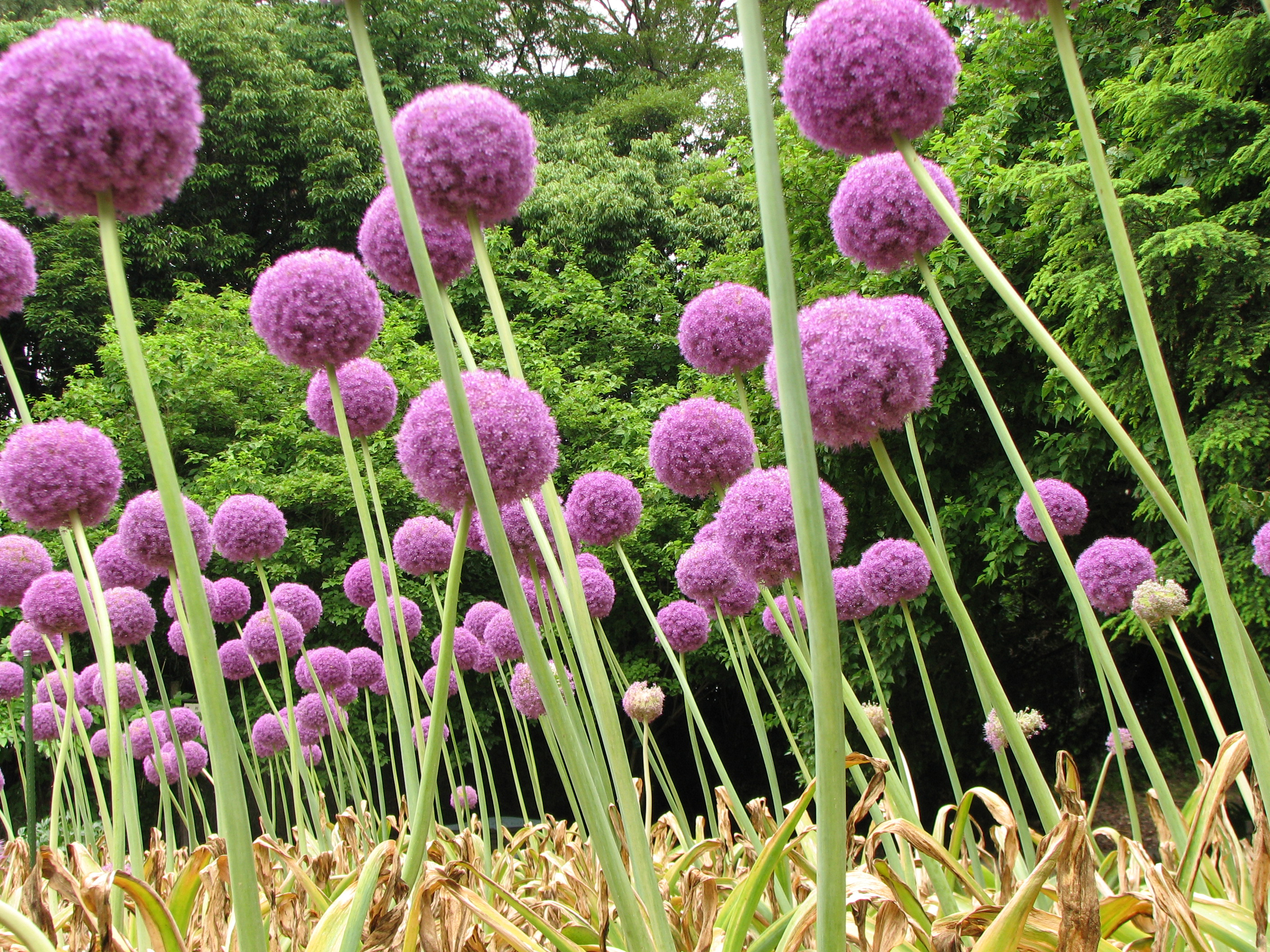 Giant purple puffballs at the Kyoto Botanical Garden